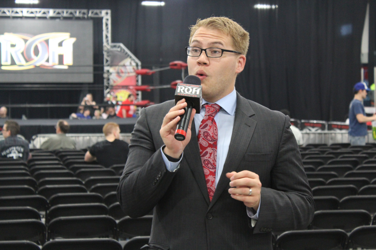 Ian Riccaboni welcoming the crowd to the Ted Reeve Arena in Toronto prior to Global Wars 2015.